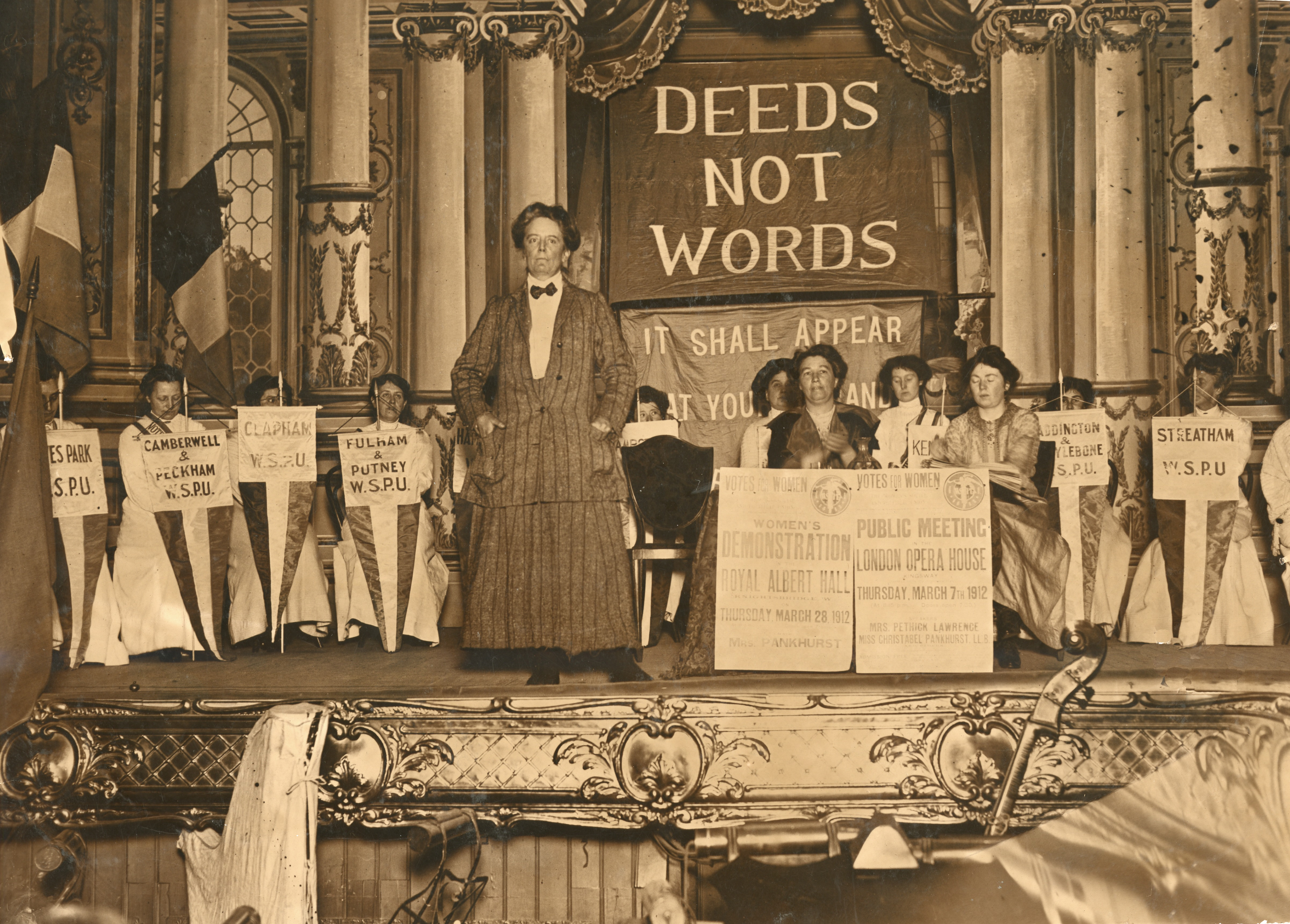 7JCC/O/02/005Photograph, printed, paper, monochrome, an unidentified woman speaking at the London Pavilion, Emmeline Pethick Lawrence and Christabel Pankhurst also on the platform, with representatives of WSPU branches behind; printed on reverse 'General Press Photo Company, 2 Bream's Buildings, Chancery Lane. Telegrams: 'Illupresto', London; Telephone: City.. Please acknowledge GPP'